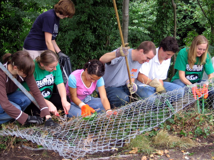 I, the author do hereby permit